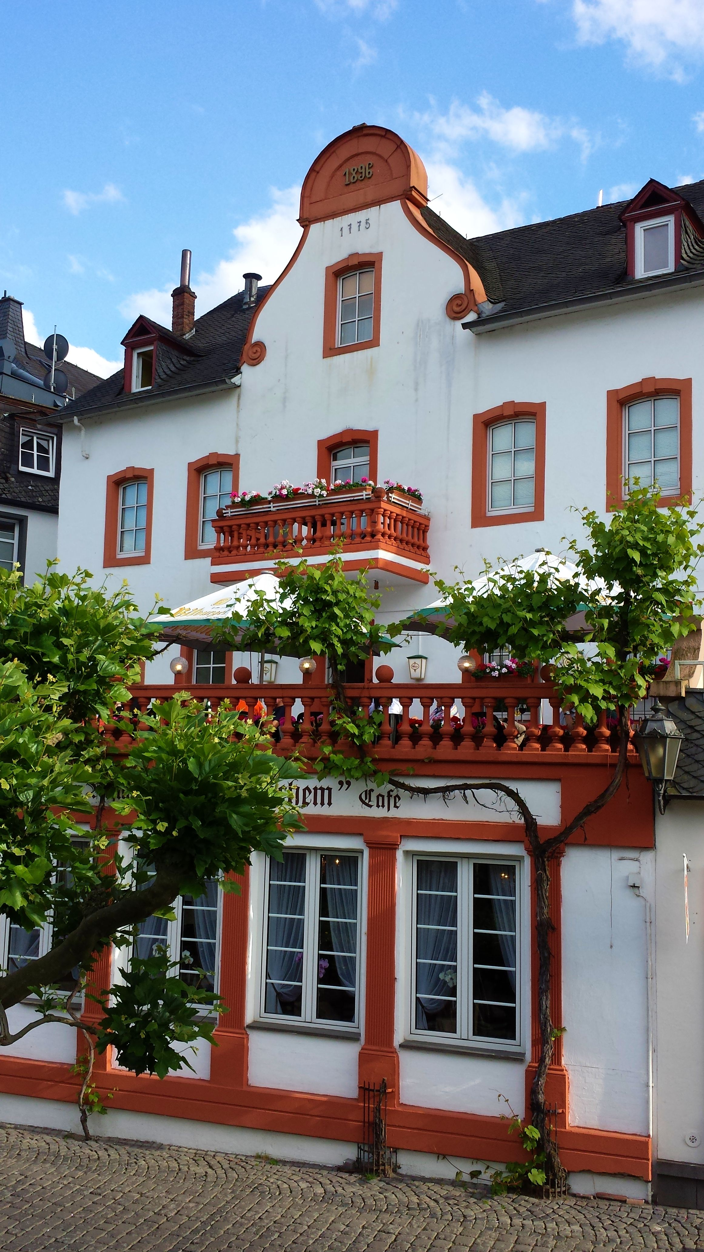 This house was built first in the year 1775. Later in the year 1896 it was reconstructed and became one more level. The original gable was kept and later placed again on the front and top of the house. This house belonged in the past to the medical Dr. Johann Lambert Joseph Comes than it was bought by the master backer Roters and became the name Café Roters. Today it belongs to the restaurant Alt Cochem.